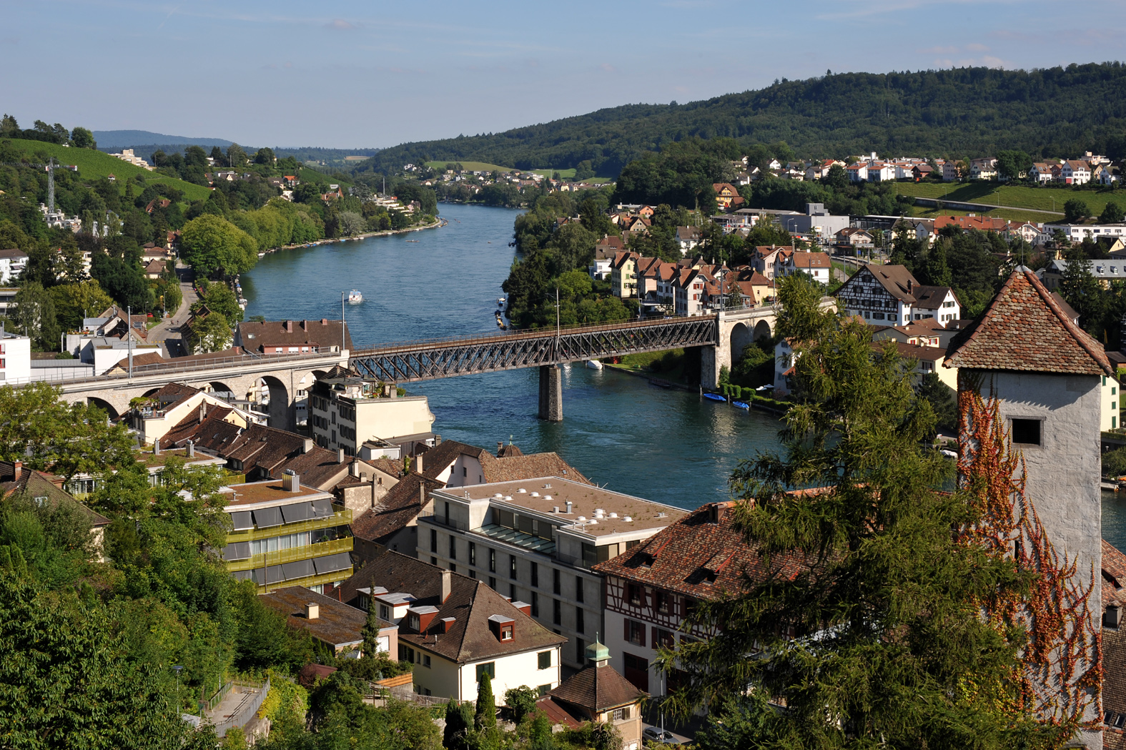 Railway bridge between Schaffhausen and Feuerthalen, view from the Munot; Schaffhausen and Zurich, Switzerland.